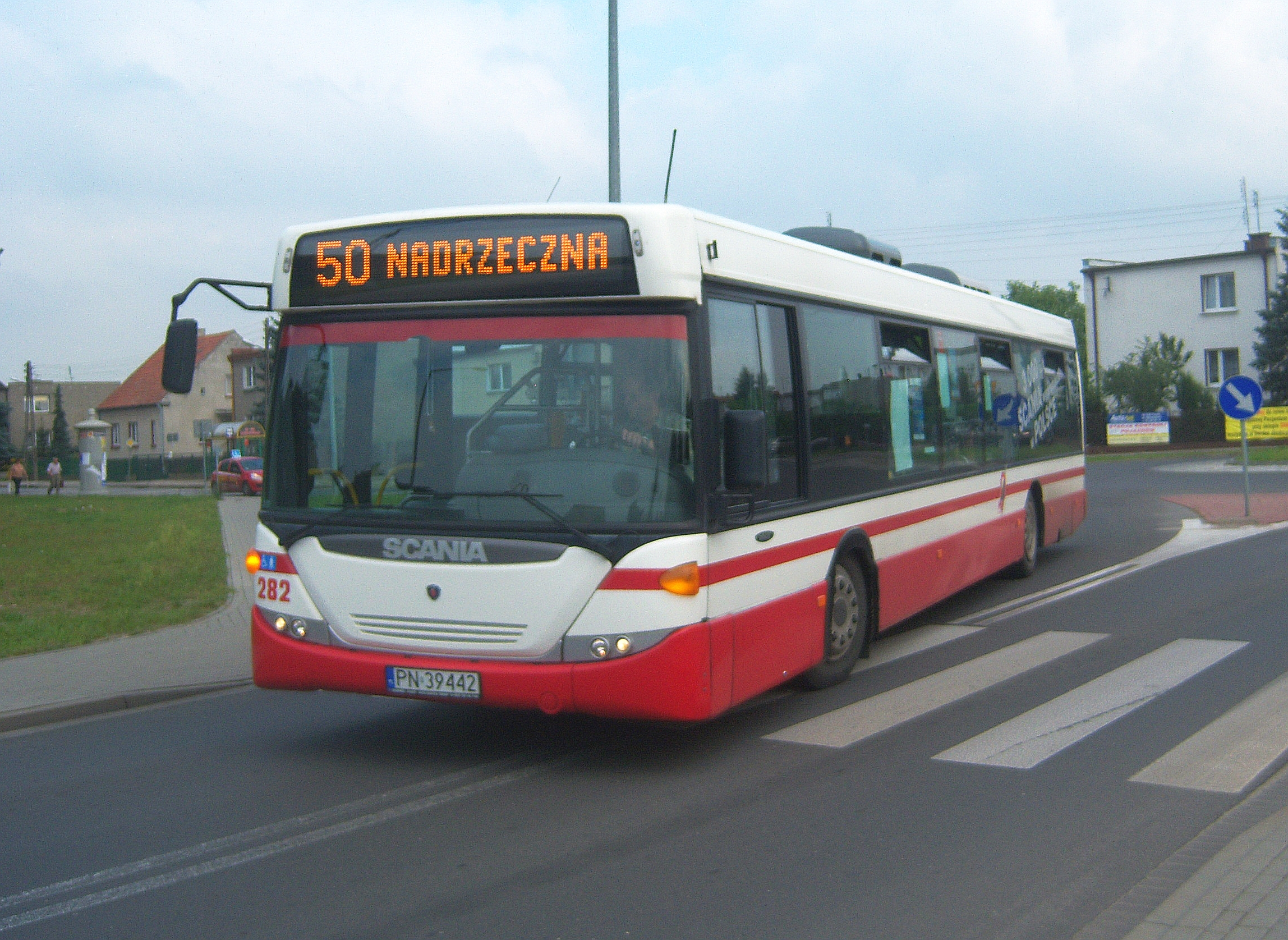 Scania CN280UB 4x2 EB OmniCity bus (#282) in Konin, Poland. Built 2009, MZK Konin operator.